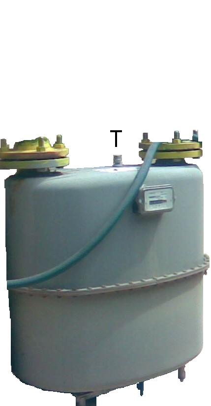 A diaphragm gas meter with a thermowell